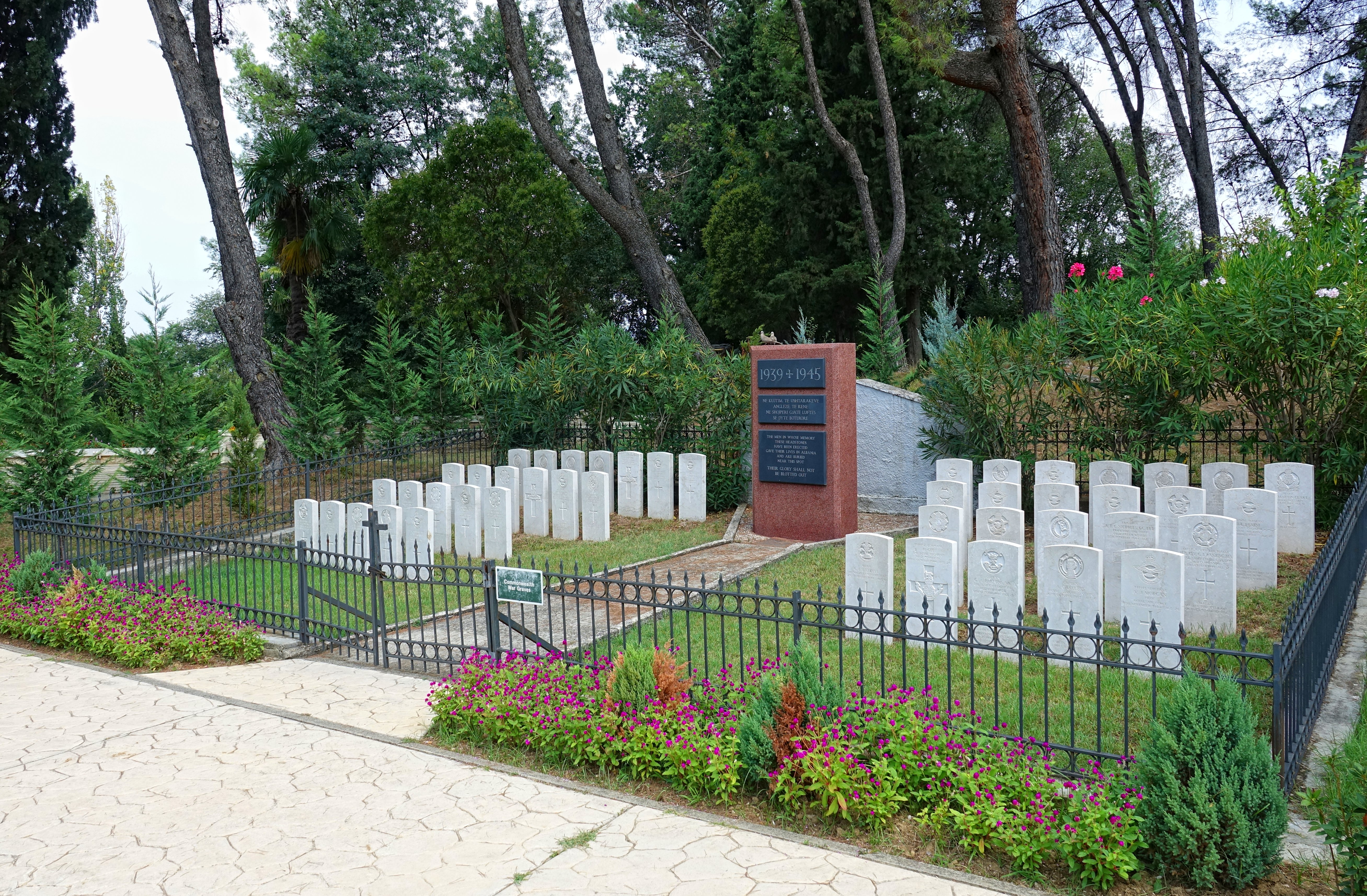 War Memorial for British and Australian soldiers fallen during WWII, located in the Grand Park of Tirana, Albania.